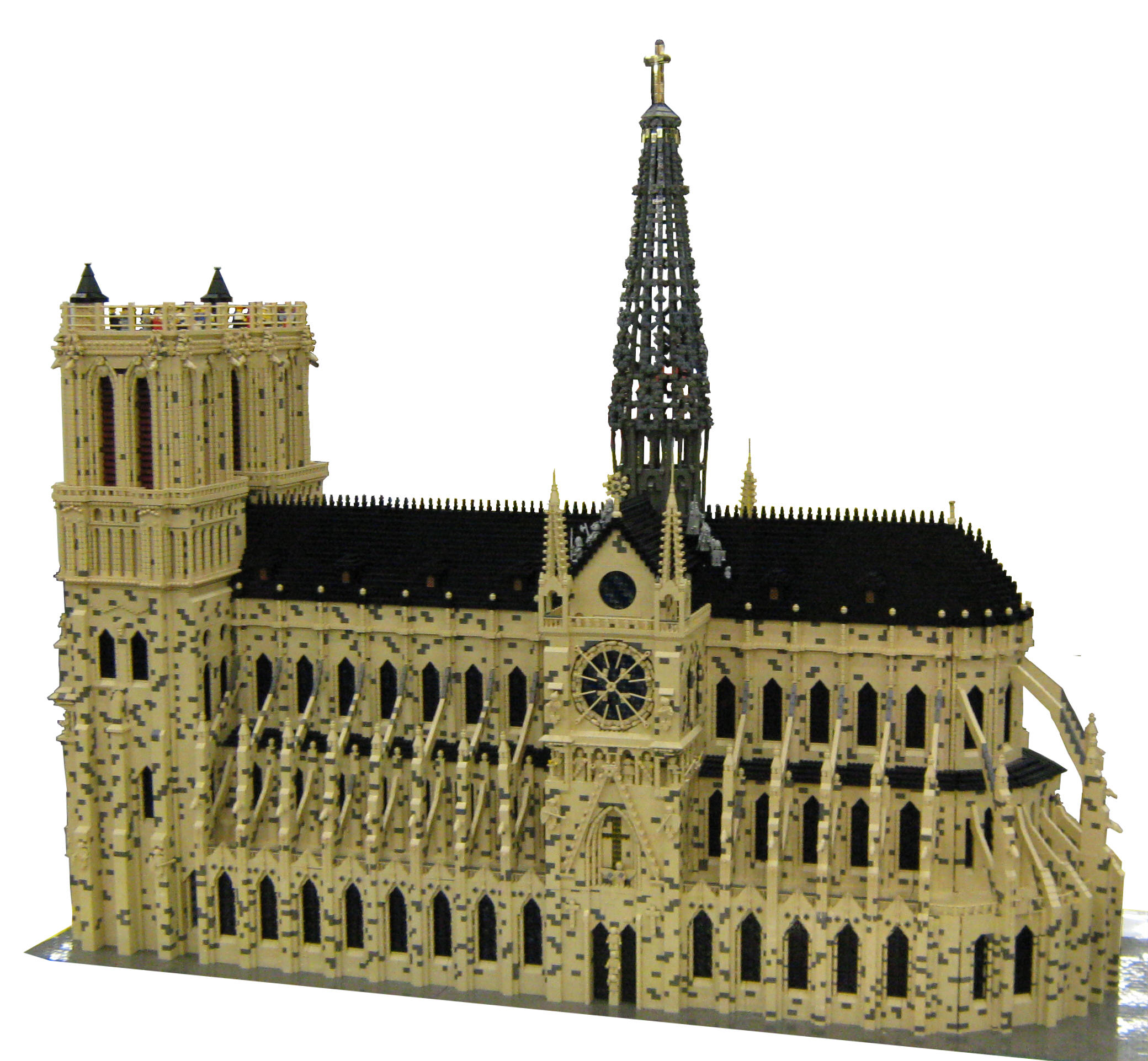 LEGO model of the Paris cathedral Notre Dame, build by Ingo Bramigk